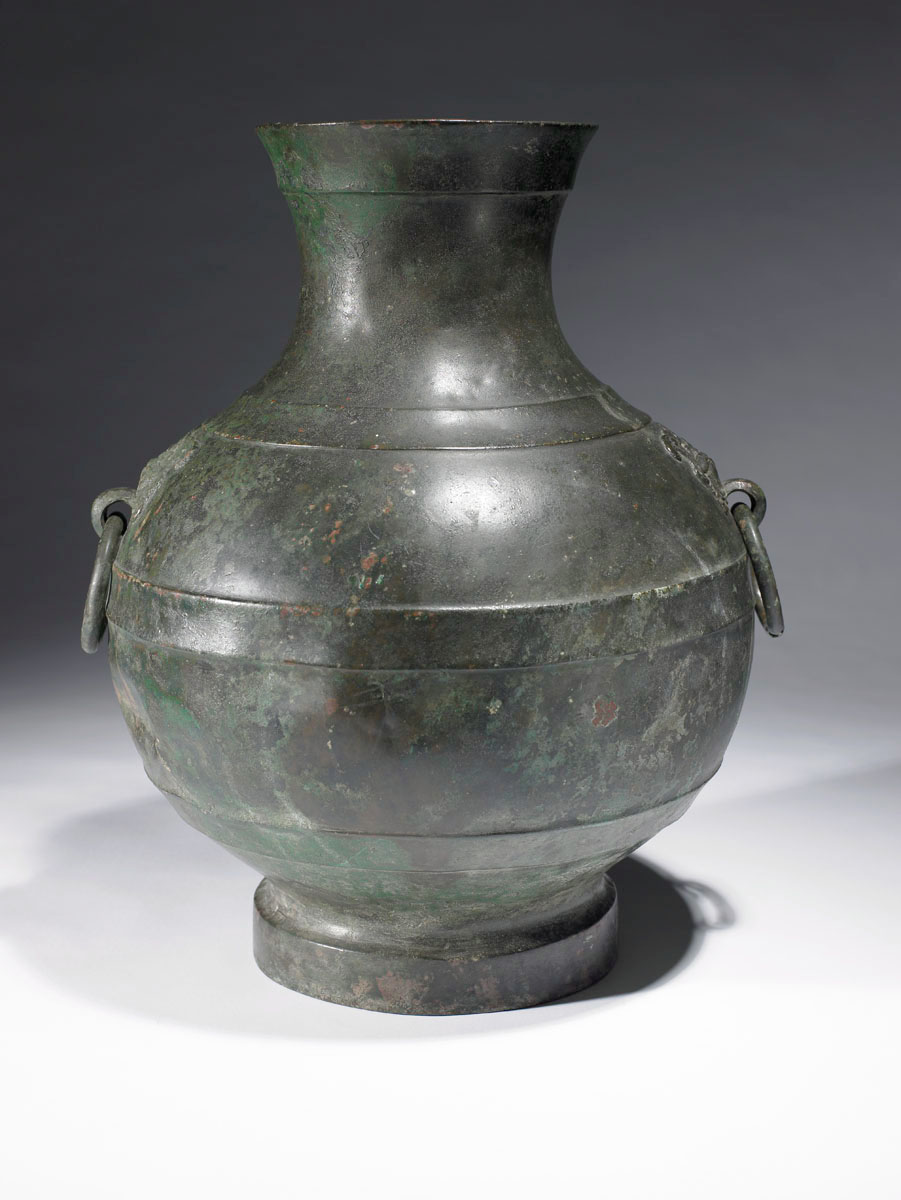 Ceremonial wine vessel for Chinese Warring States Period